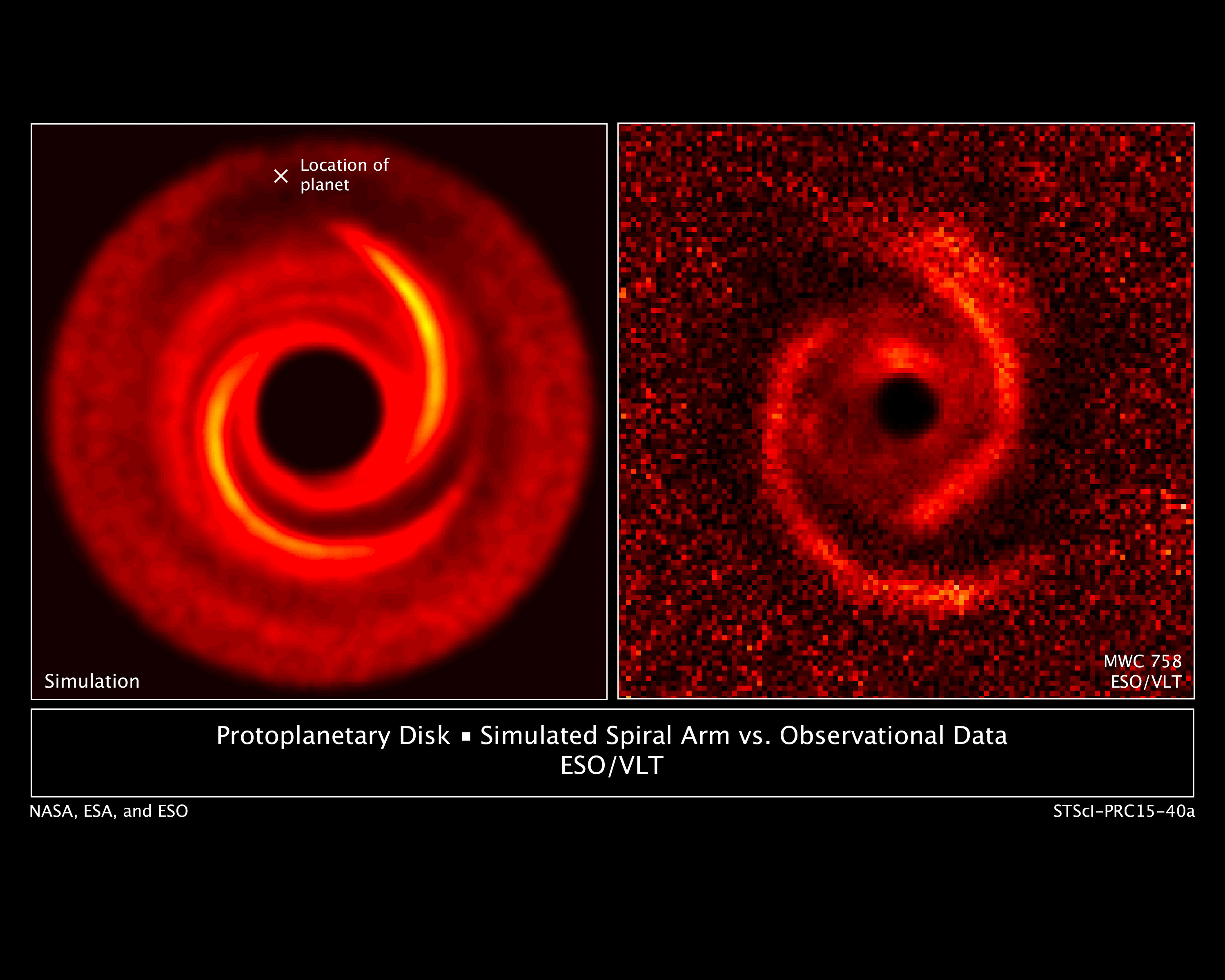 [Right] — Observations taken by the European Southern Observatory's Very Large Telescope show a protoplanetary disk around the young star MWC 758. The disk has two spiral arms that extend over 10 billion miles from the star. [Left] — A computer model reproduces the two-spiral-arm structure; the "x" is the location of a putative planet. The planet, which cannot be seen directly, probably excites the two spiral arms.